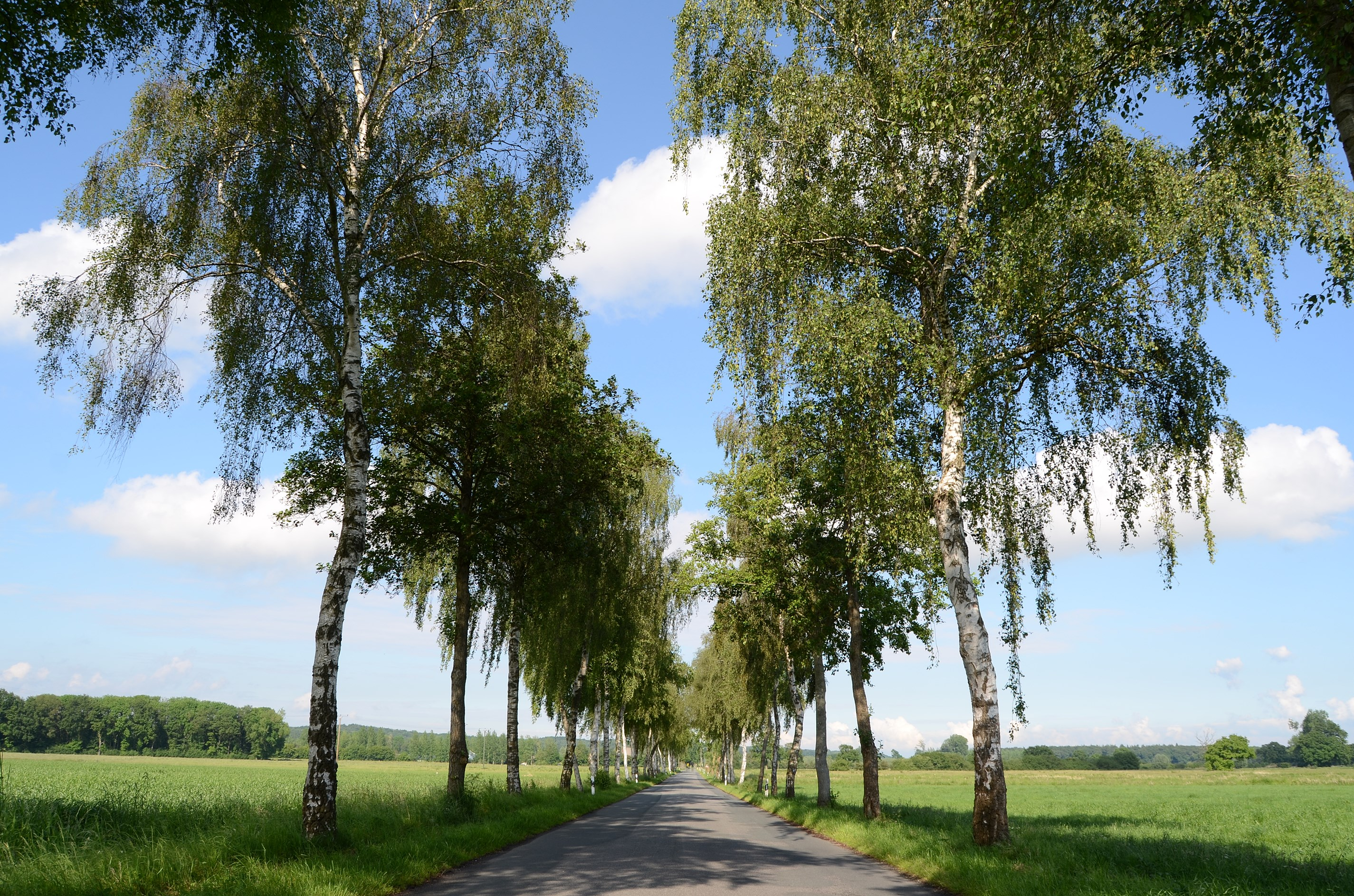 Sonsbeck (North Rhine-Westphalia, Germany) – avenue trees of Grenzdycker Straße next to the nature reserve Grenzdyck This photograph was taken with a Nikon D7000.